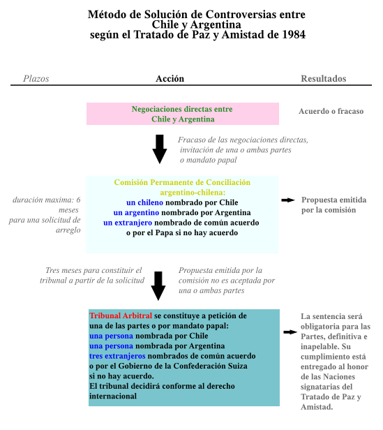 Settlement of Disputes after Treaty Chile-Argentina of 1984